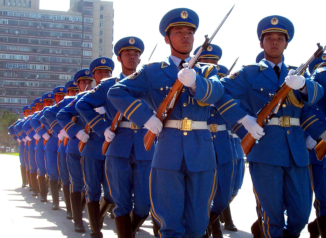 Chinese airmen parade during a full honors arrival ceremony July 12, 2000, at the ministry of defense headquarters in Beijing, China.